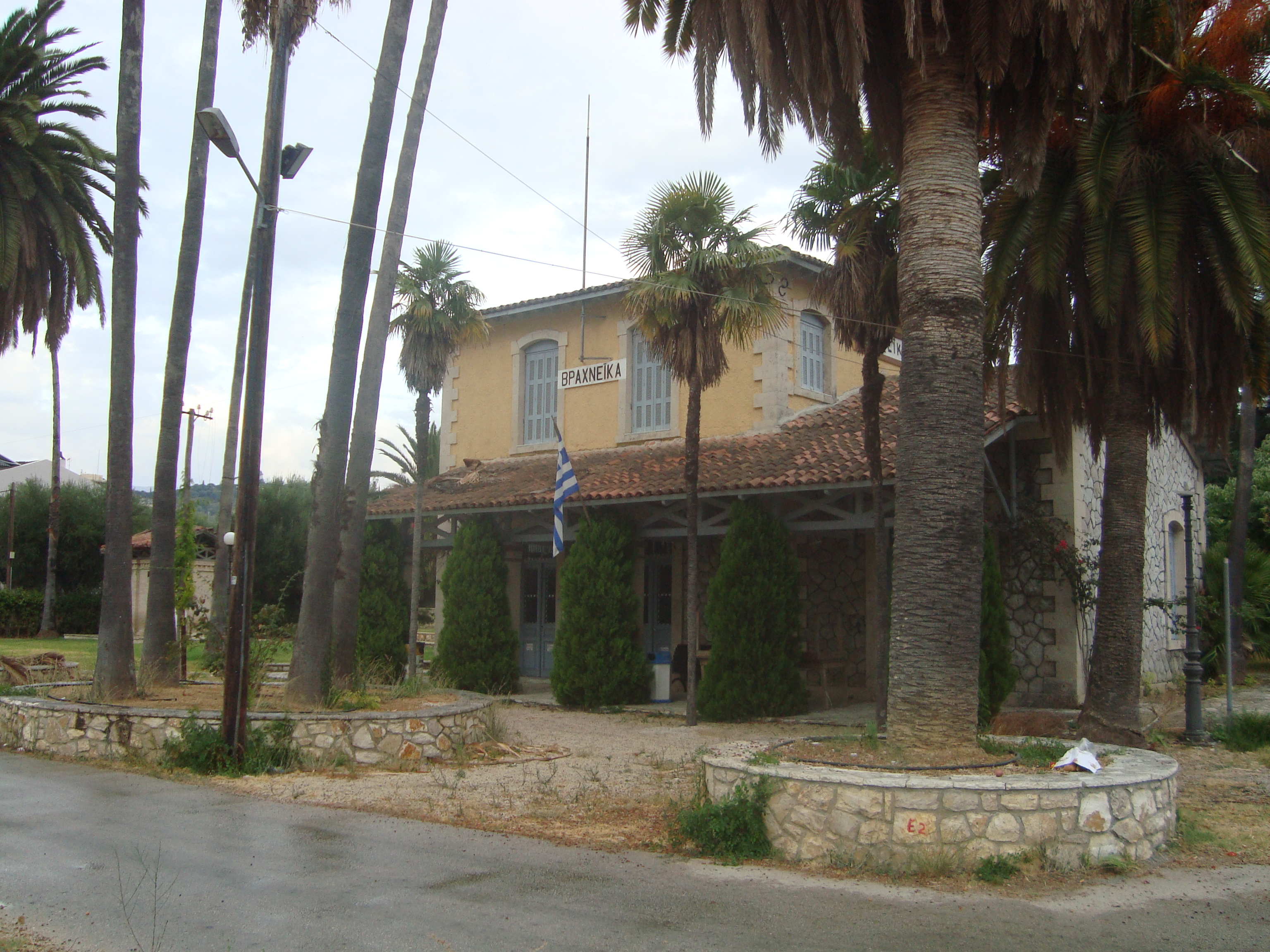 Old train station, Vraxneika Village